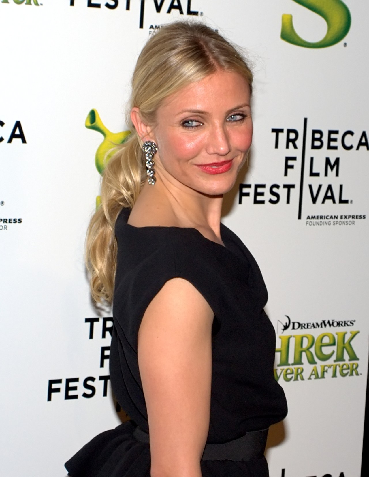 Cameron Diaz at 2010 Tribeca Film Festival